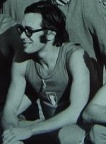 The Italian sprinter Vincenzo Guerini in Viareggio (1971)